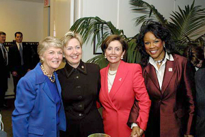 Geraldine Ferraro, Hillary Rodham Clinton, Nancy Pelosi, Denyse Graves, in honor of Women's History Month